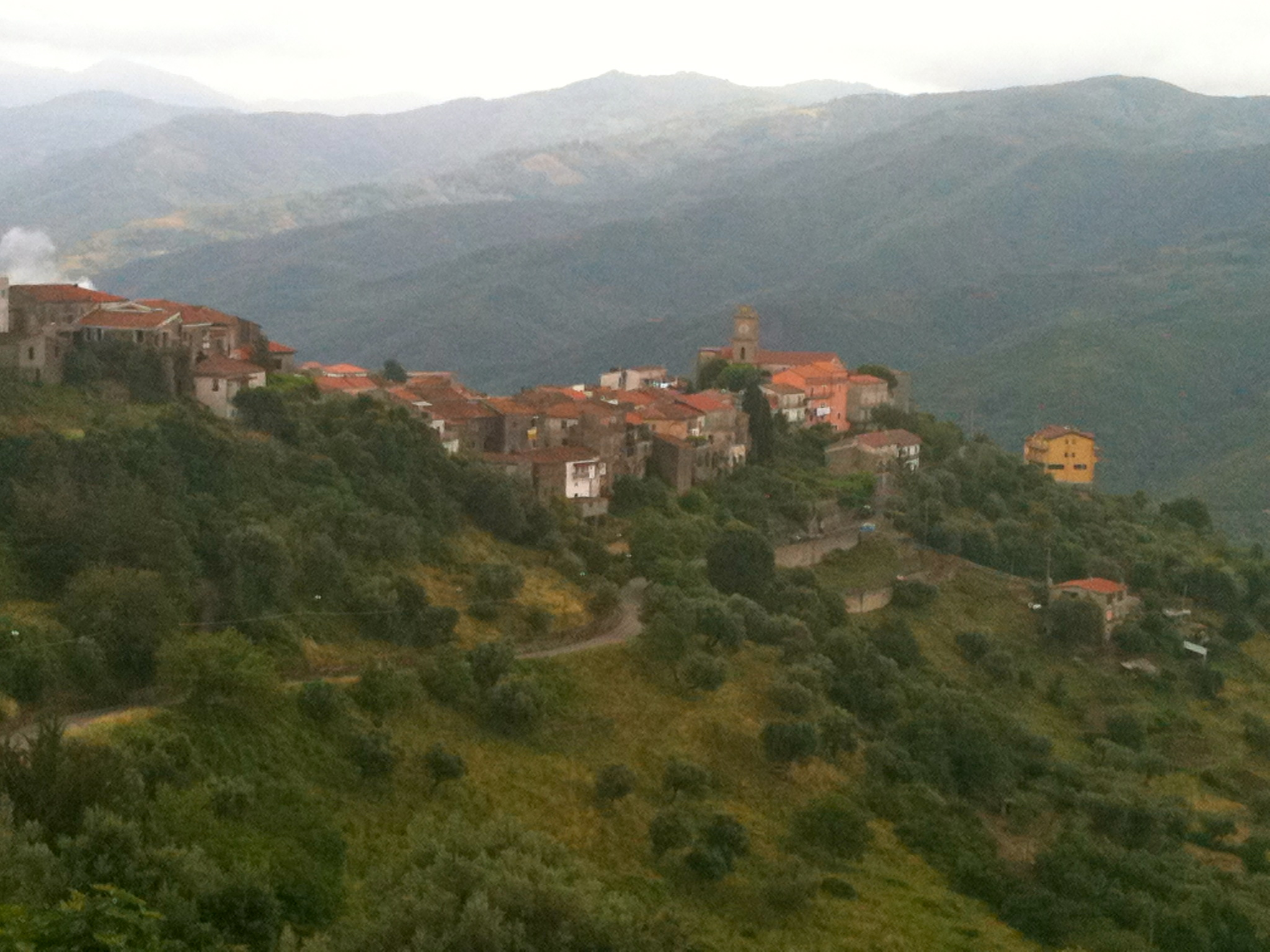 View of Cicerale, in Campania, Italy. Part of the Cilento and Vallo di Diano National Park.